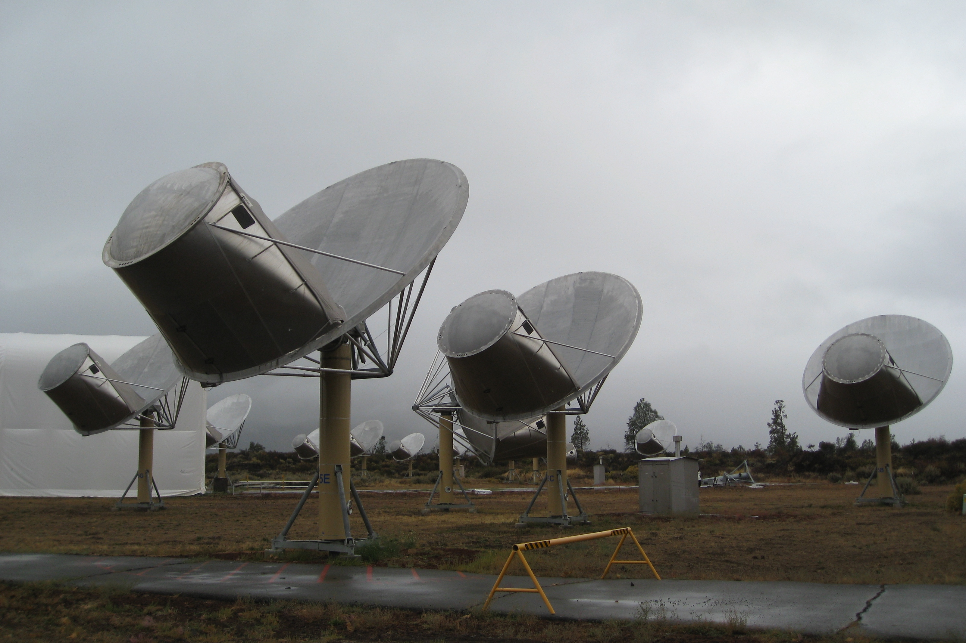 I went waling up a road for perhaps a kilometer when I started to see some rather odd reflector antennas. I was shortly to discover the Allen Telescope Array, a most curious instrument. The Allen Telescope Array (ATA is a joint effort by the SETI Institute and the Radio Astronomy Laboratory (RAL) at the University of California, Berkeley to construct a radio interferometer that is dedicated to astronomical observations and a simultaneous search for extraterrestrial intelligence. Source accessed 20 April 2011 lt 013